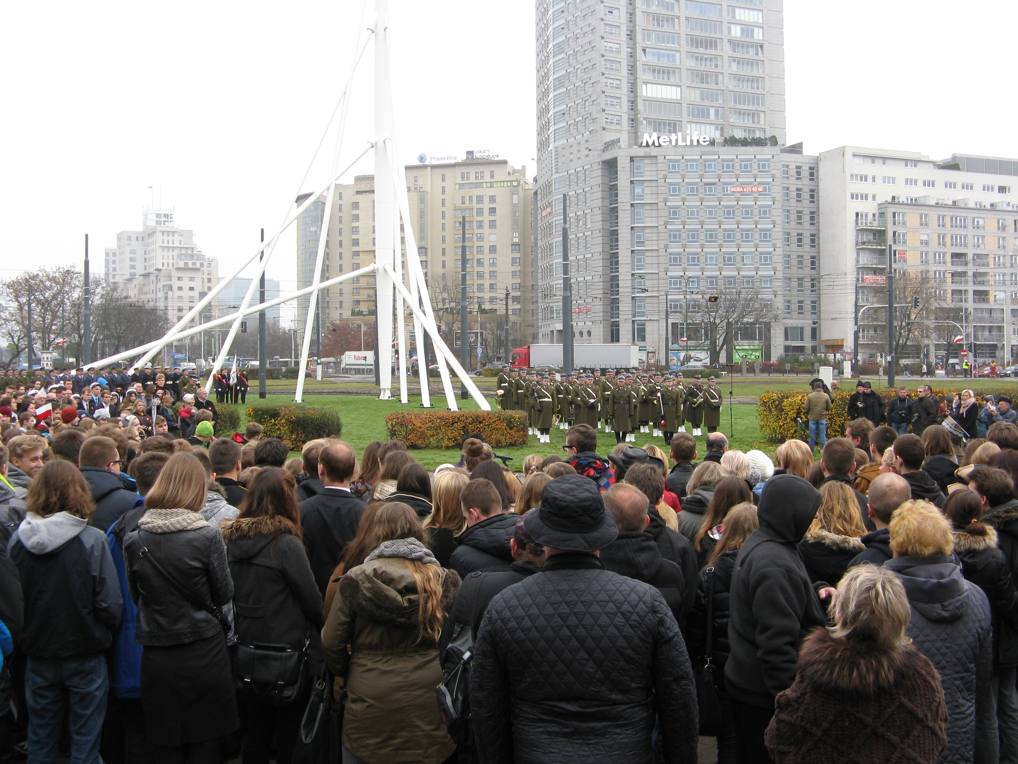 Opening the Mast of Freedom, Warsaw, November 10, 2014